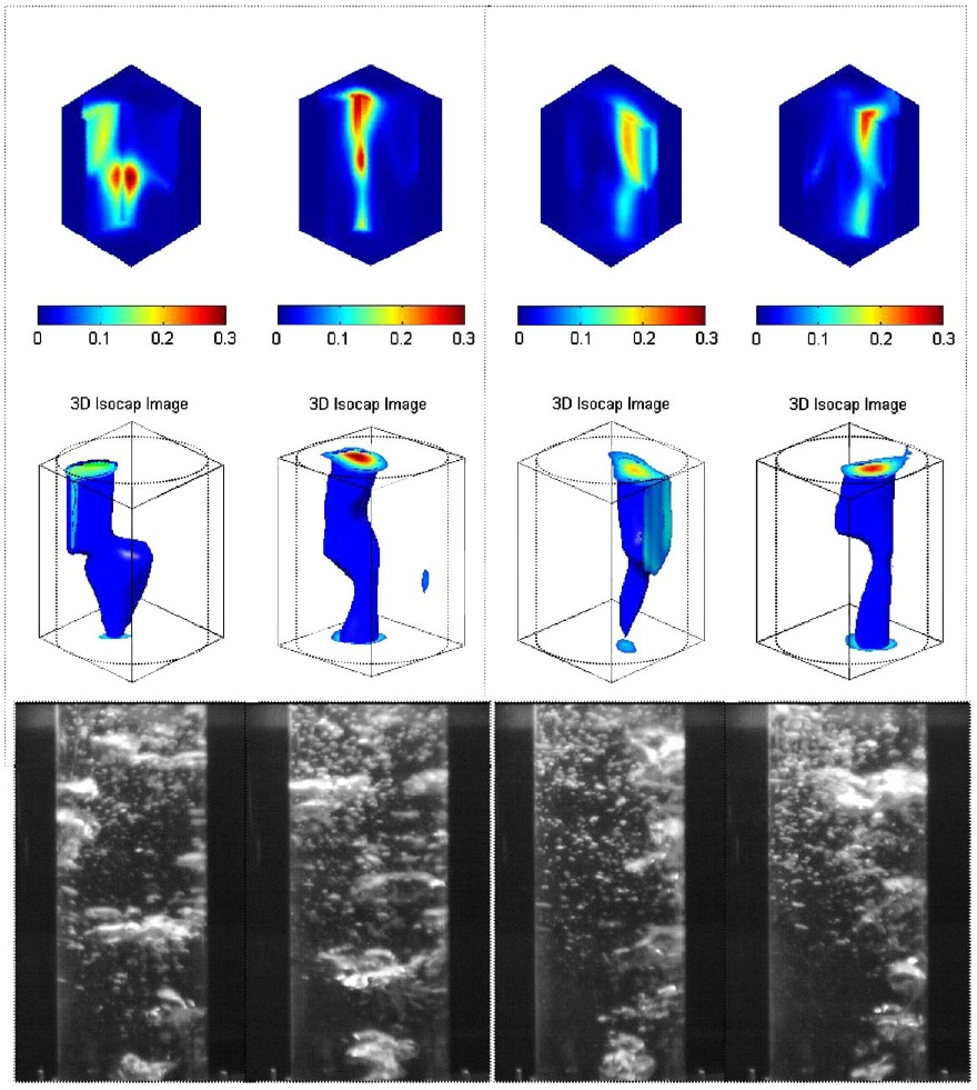 Comparison of camera images and ECVT reconstructed images for a gas-liquid bubble column